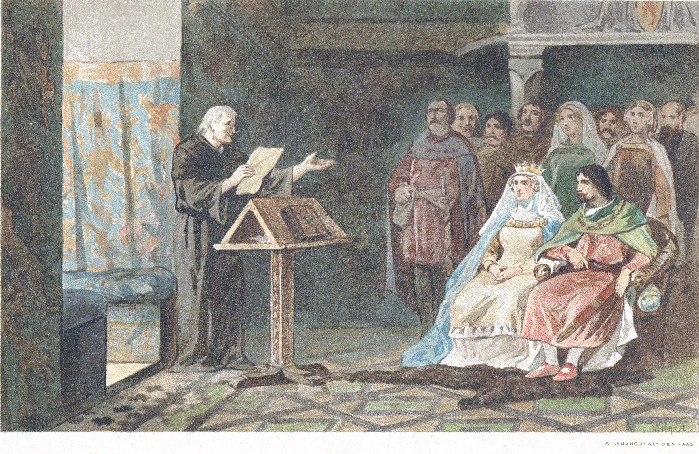 Melis Stoke at the court of count Jan II of Avesnes, count of Holland and Zeeland.